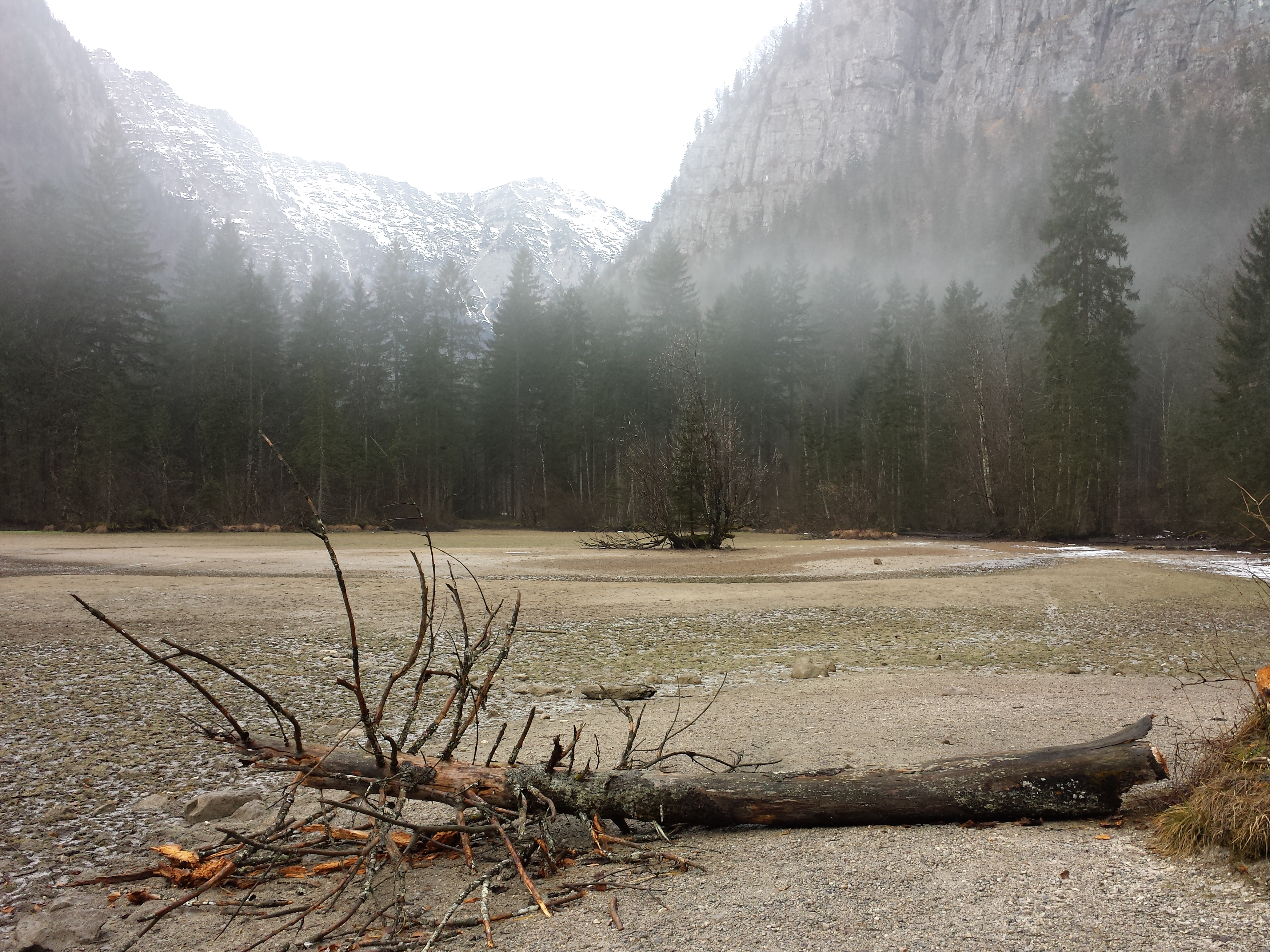 Dried-out Koppenwinkellacke, Obertraun, district Gmunden, Upper Austria